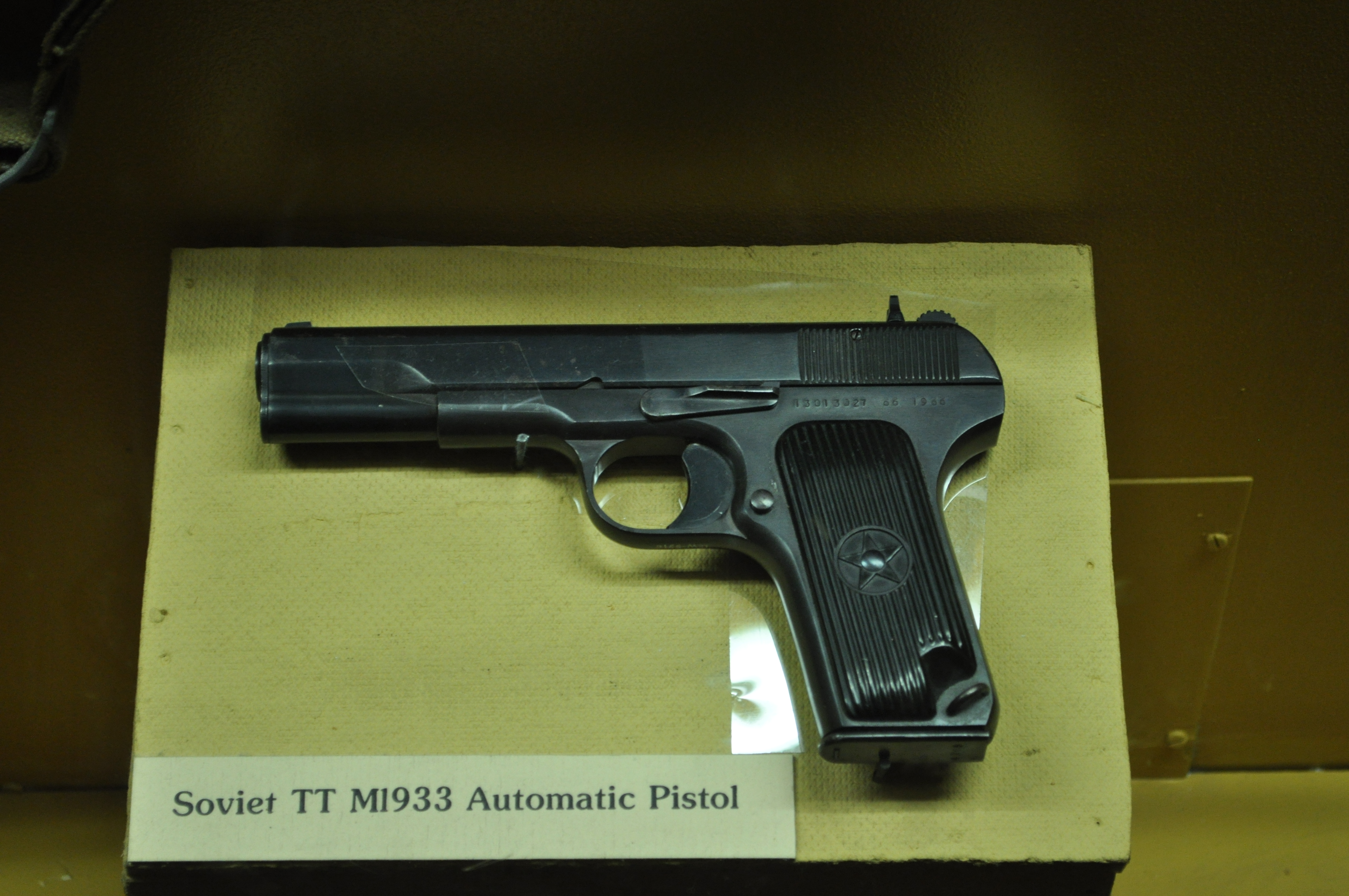 Soviet TT M1933 automatic pistol, Fort Lewis Military Museum, Fort Lewis, Washington, USA. Part of a display of the weapons of the Korean War.